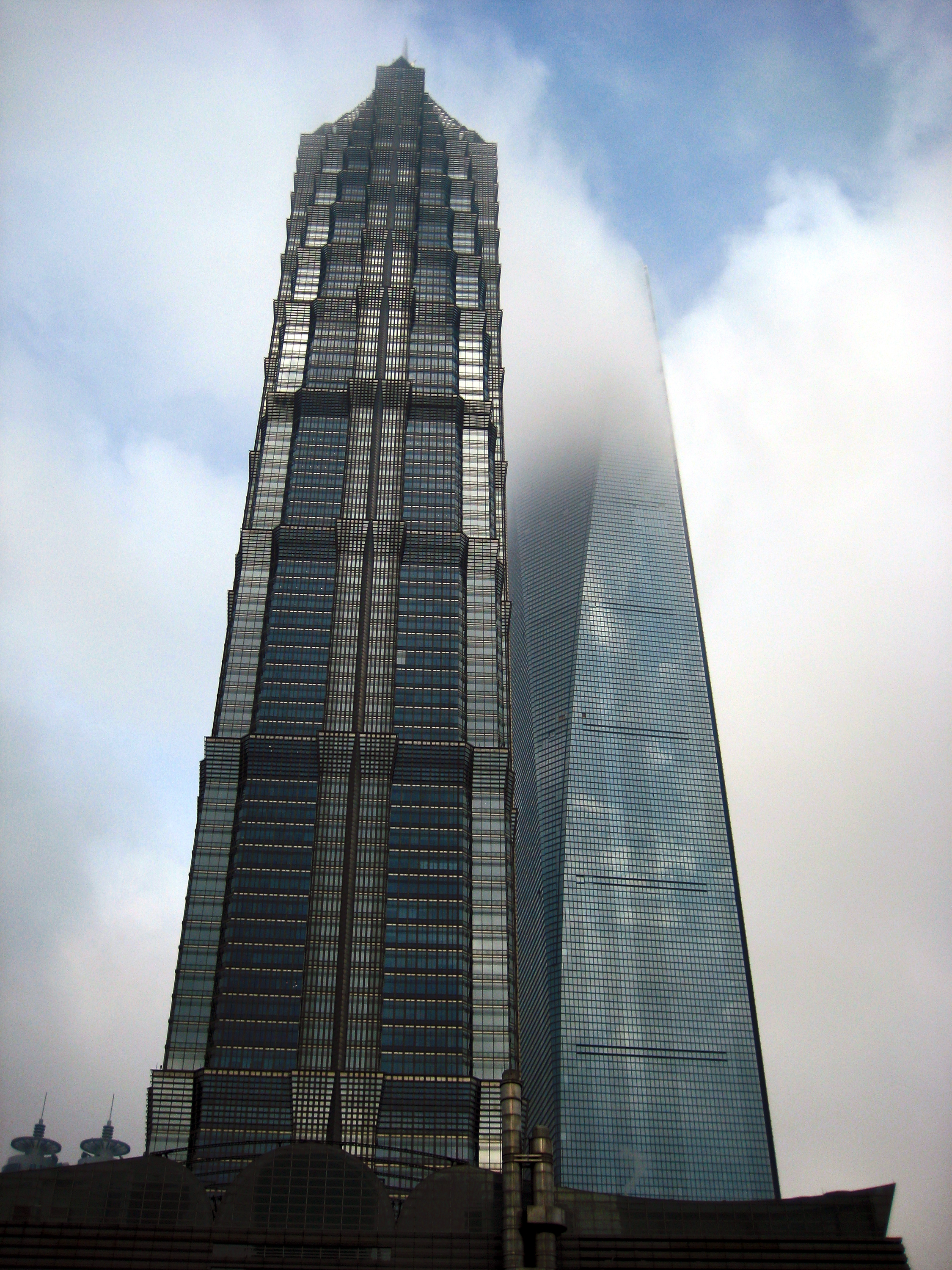 This is the photo of Jin Mao Tower and Shanghai World Financial Center which disappears in clouds of Shanghai sky